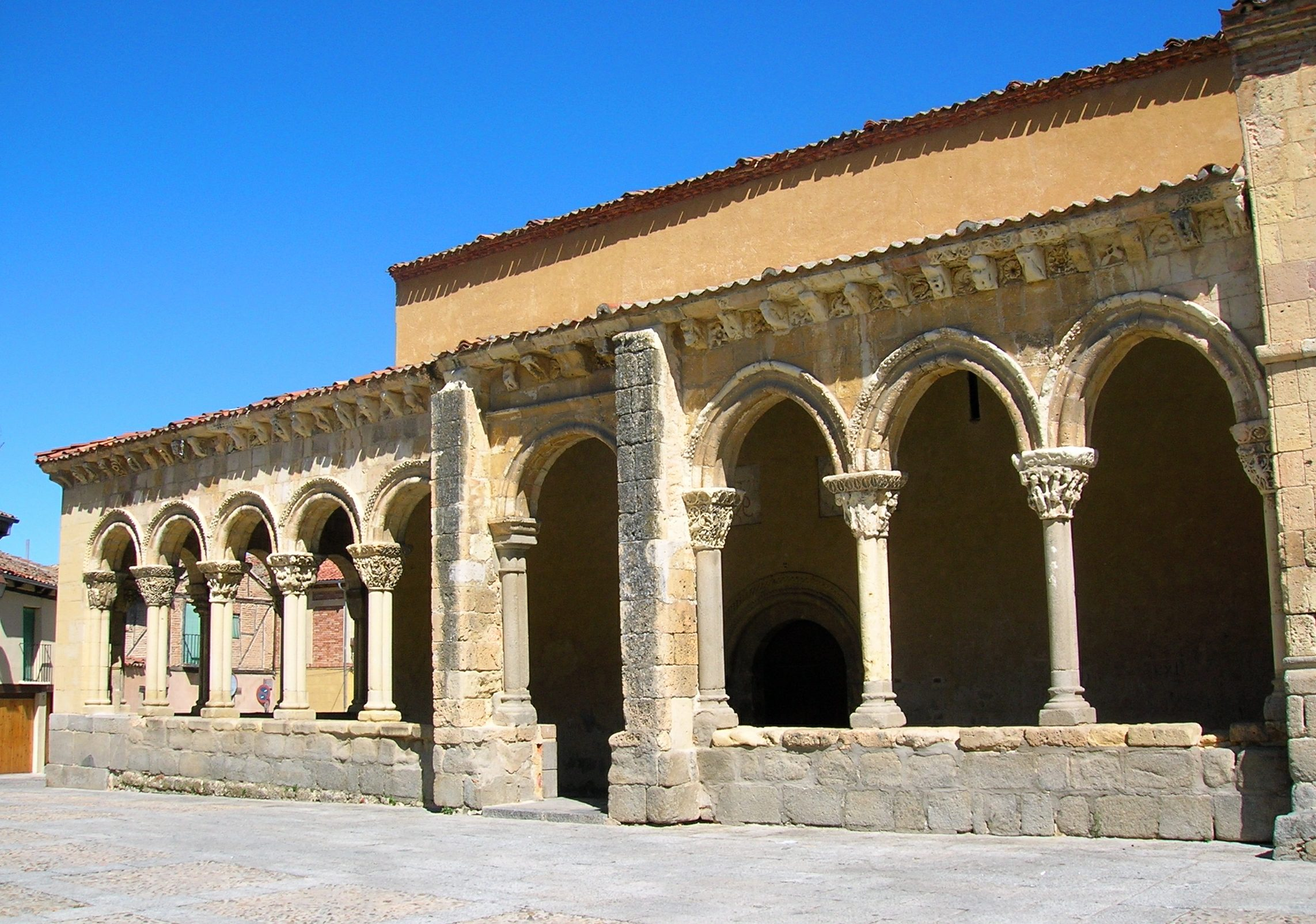 Iglesia de San Lorenzo, Segovia